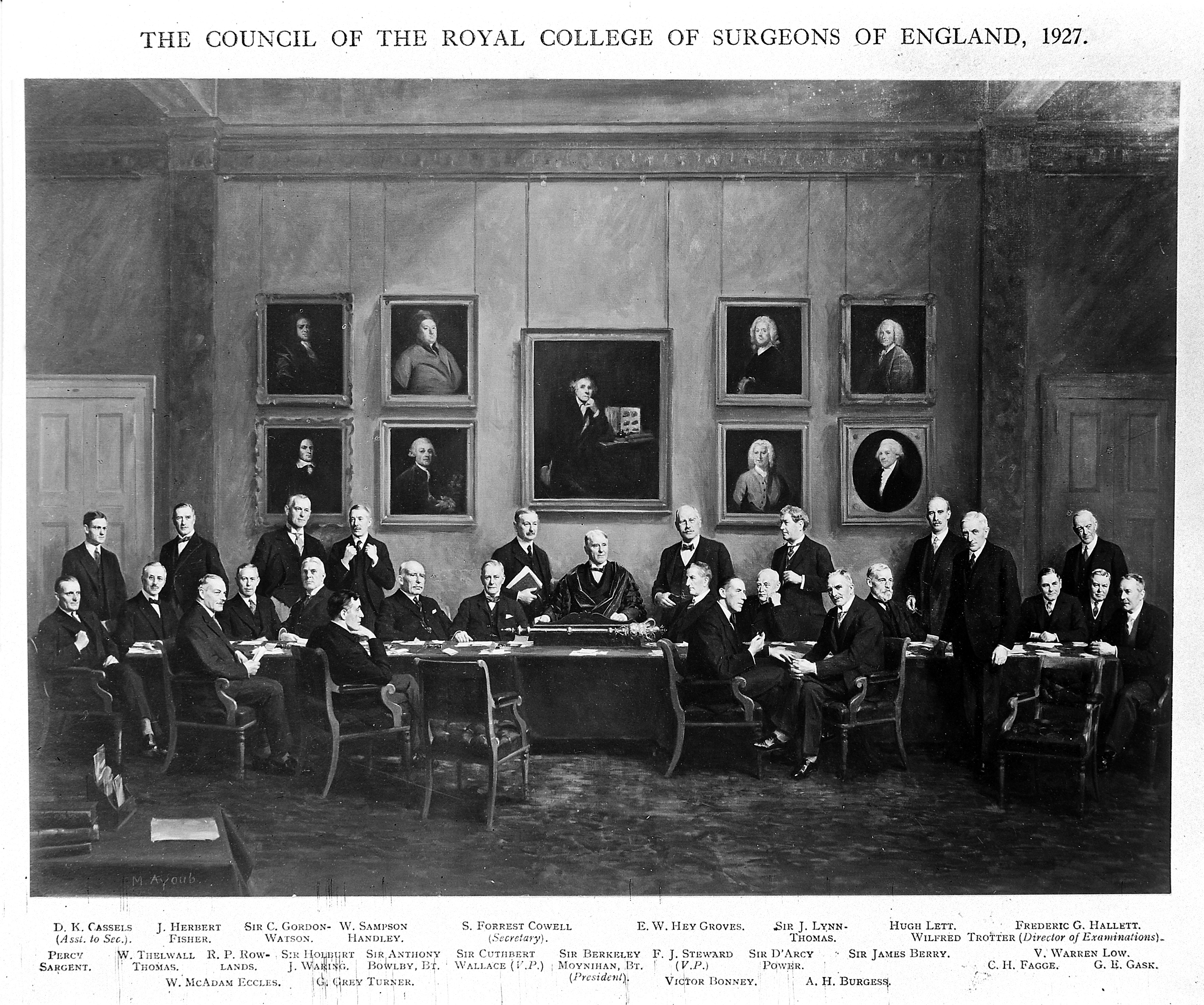 Group portrait- including Victor Bonney, Sir Anthony Bowlby, Sir James Berry, W. MacAdam Eccles,A.H. Burgess, C.H. Fagge, J. Herbert Fisher, G. E. Gask, E.W. Hey Groves, Sir C. Gordon-Watson, Frederic G. Hallett, W. Sampson Handley, V. Warren Low, Sir Lynn-Thomas - from the Council of the Royal College of Surgeons of England, 1927 Iconographic Collections Keywords: Charles Hilton Fagge; W. MacAdam Eccles; Charles Gordon-Watson; J. Herbert Fischer; W. Sampson Handley; A.H. Burgess; George Ernest Gask; E.W. Hey Groves; Anthony Bowlby; Victor Bonney; Frederic G. Hallett; James Berry